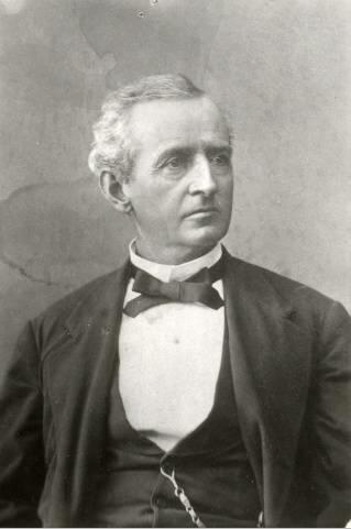 Photograph of New Mexico Governor Samuel Beach Axtell (1875-1878)